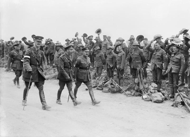 HM King George V (front centre), with Generals Plumer (behind KGV), Godley (on KGV's right) and Harper (on KGV's left), inspecting New Zealand battalions about to entrain at Steenwerck.